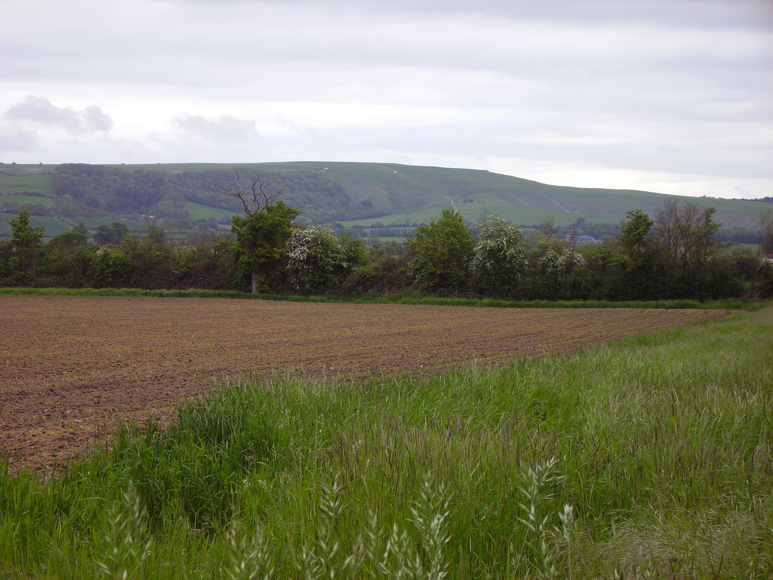 Photographer: User:Ballista